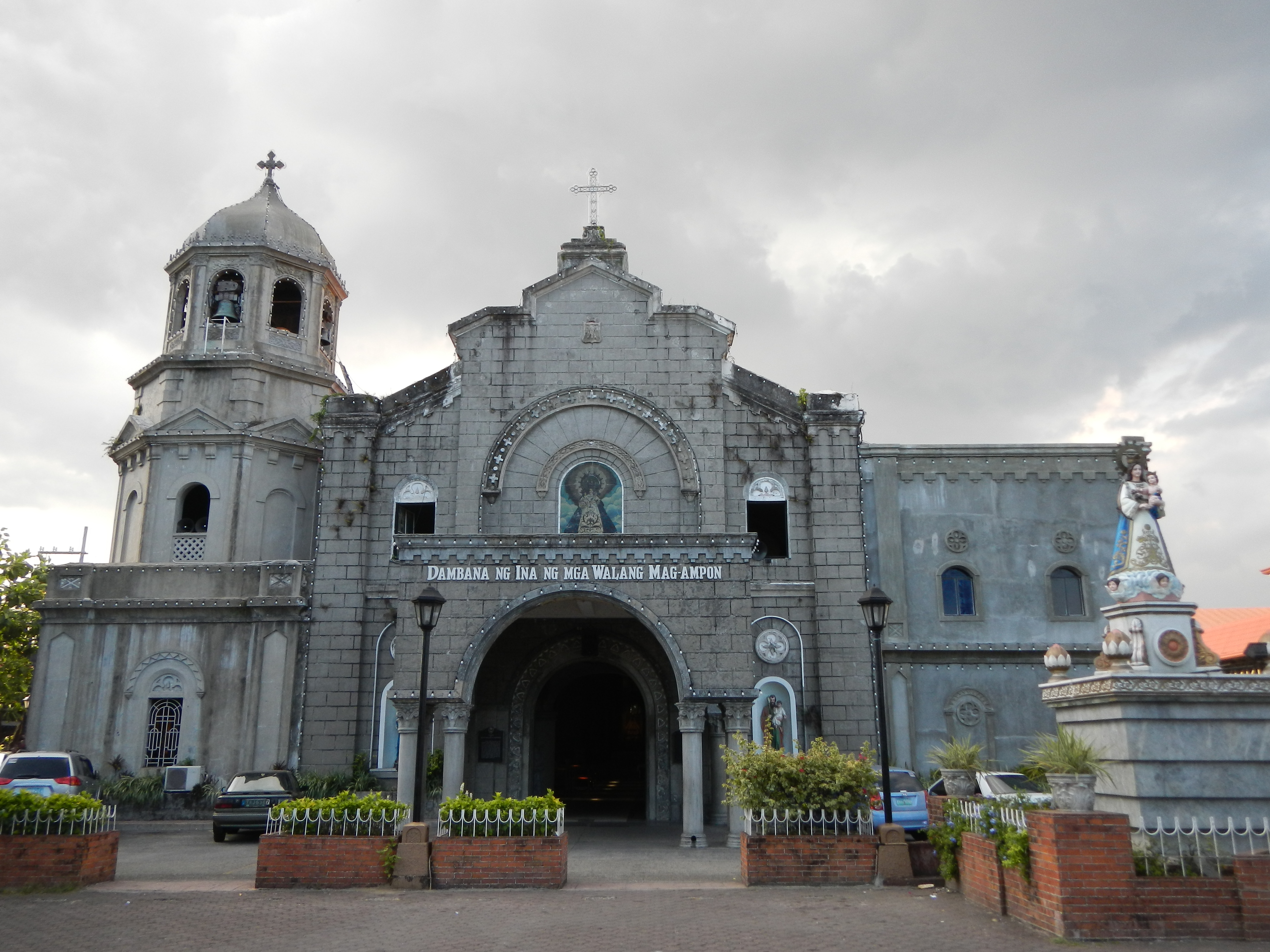 1690-1572 Our Lady of the Abandoned Parish[1]Vicariate of Our Lady of the Abandoned - Diocesan Shrine of Our Lady of the Abadoned Parish (F-1690, Marikina) - Most Rev. Francisco M. De Leon, Rector and Parish Priest, Rev. Fr. Reynante U. Tolentino, Vice Rector and Parish Administrator; It belongs to the Roman Catholic Diocese of Antipolo[2][3]Coordinates: 14°37'50"N 121°5'46"E [4]J.P. Rizal St. Barangay Sta. Elena, Marikina City Parish Priest: Most Rev. Francis M. De Leonddress